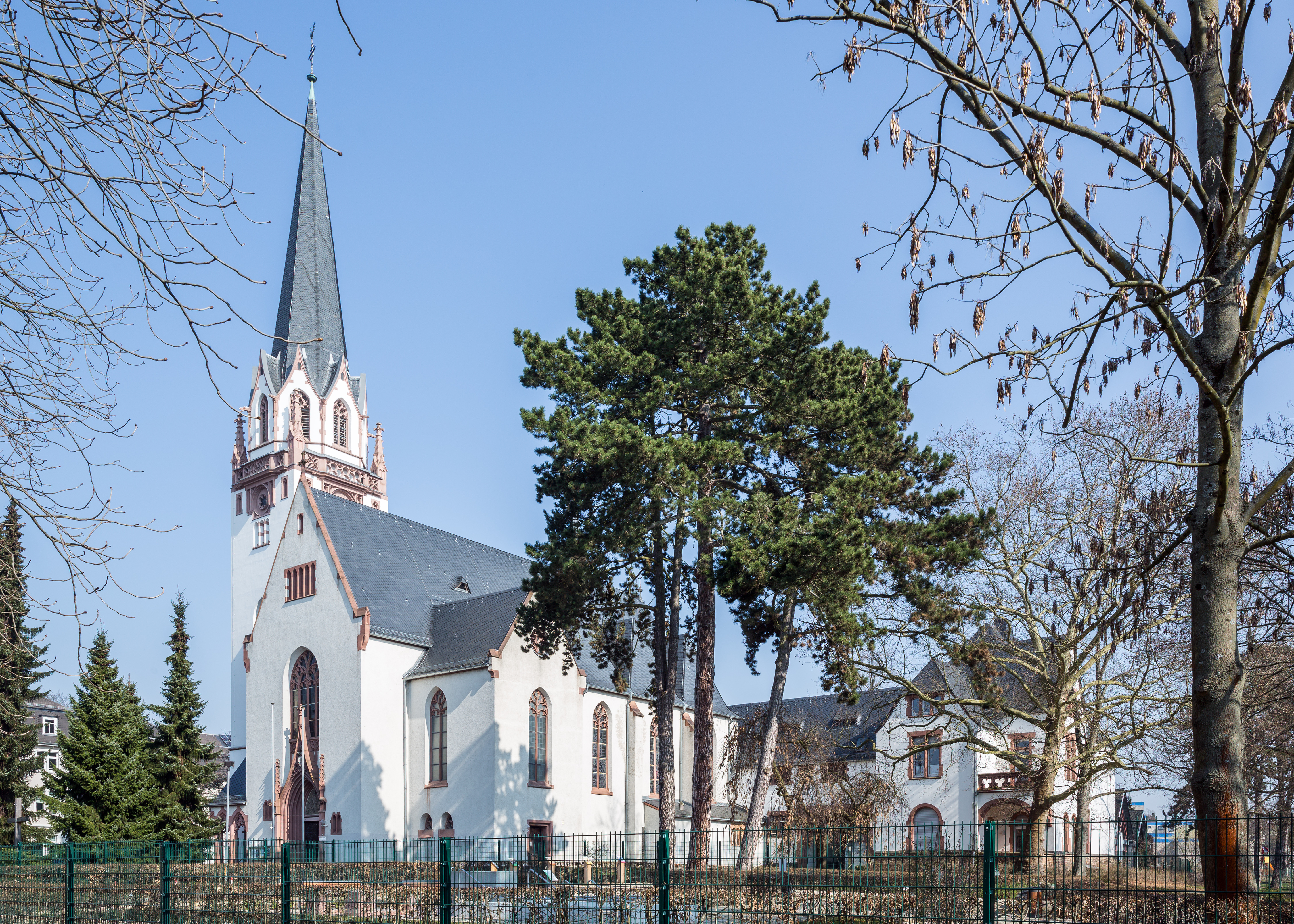 Bad Nauheim: St. Bonifatius (St. Boniface) as seen from the southwest